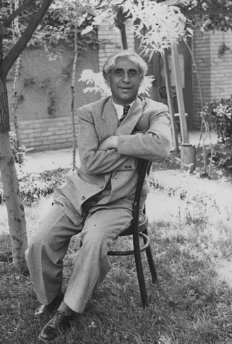 Seyyed Zia al Din Tabatabai